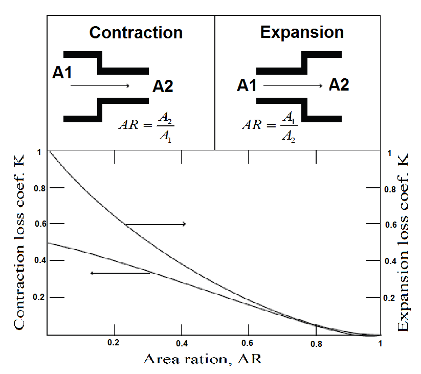 AREA CHANGE FRICTION LOSS COEF